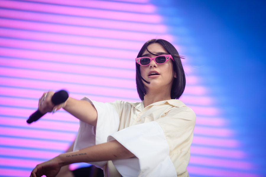 Dua Lipa the main stage at Stavernfestivalen. The concert was part of Stavernfestivalen and took place on 12. July 2018 in Stavern. Lineup:Dua Lipa (vocal)